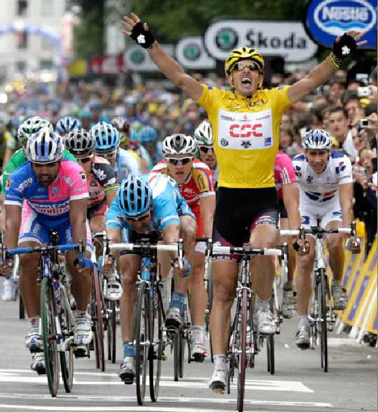 Overall leader Fabian Cancellara of Switzerland reacts as he crosses the finish line to win the 3rd stage of the 94th Tour de France cycling race between Waregem, Belgium, and Compiegne, France, Tuesday July 10, 2007. Erik Zabel of Germany, left, placed second. (foto by Christophe Ena)